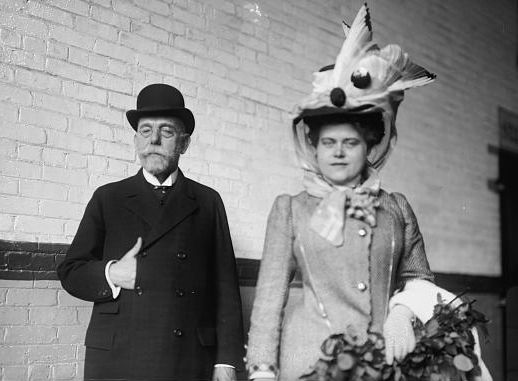 Robert Koch (1843 – 1910), German physician, and his second wife Hedwig Freiberg